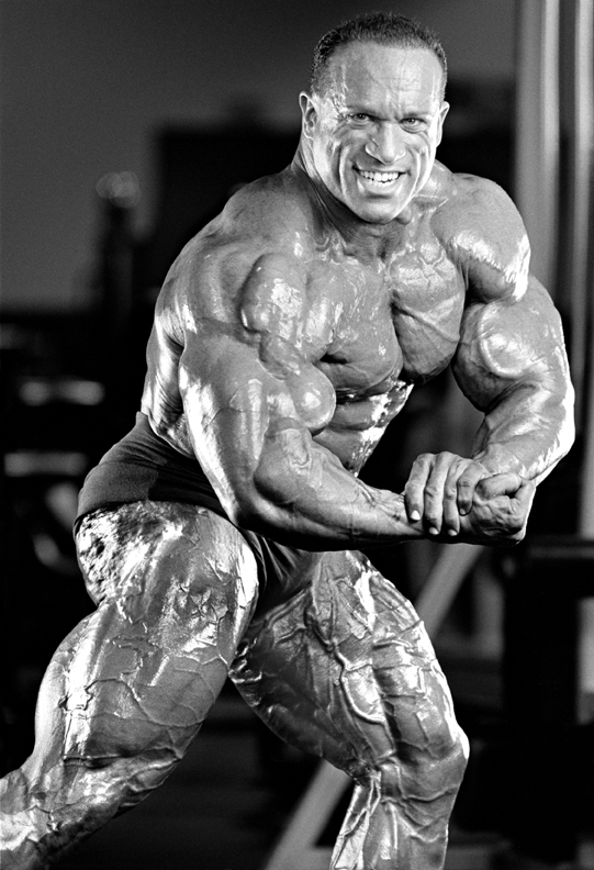 The creator of this image has given me permission to publish this image under GFDL guidelines for use in Wikipedia article and anything else per GFDL.